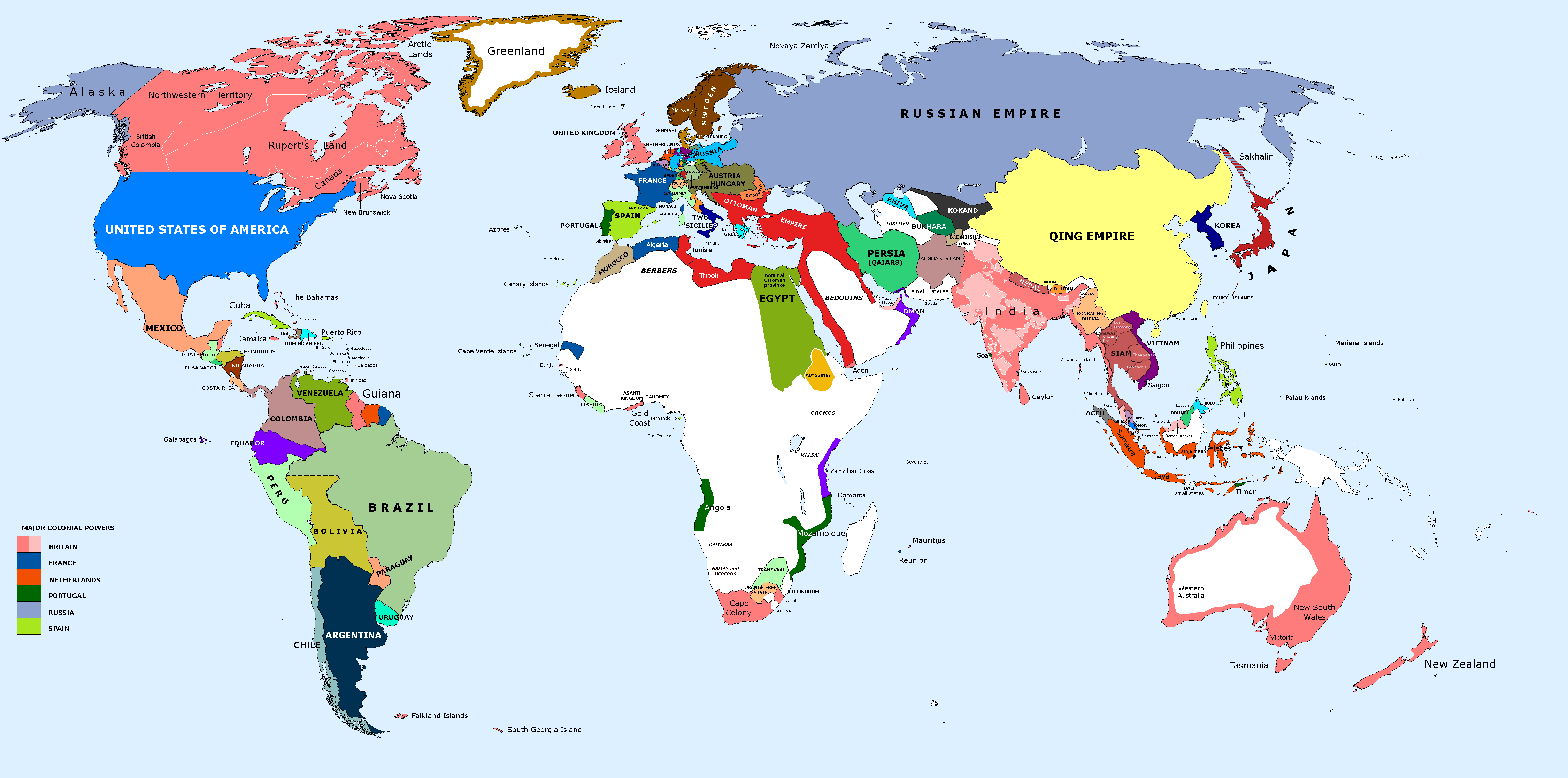 1859-60 AD: Before the unification of Italy and Germany.